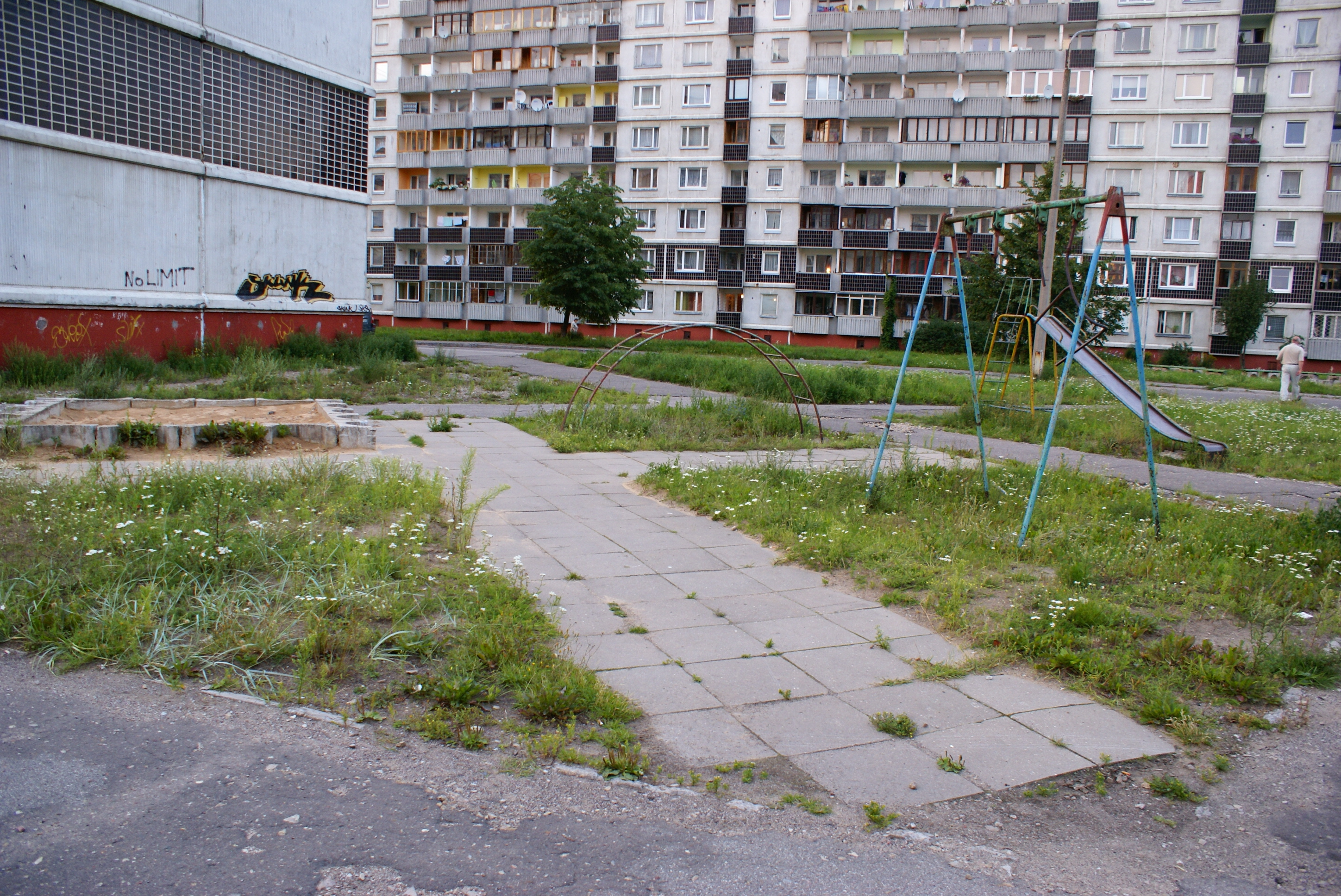 Abandoned playgroung, built in early 1990's, at Riga, Paula Lejiņa street, near №16 (on the left with graffiti) and Rostokas street №64 (in front)